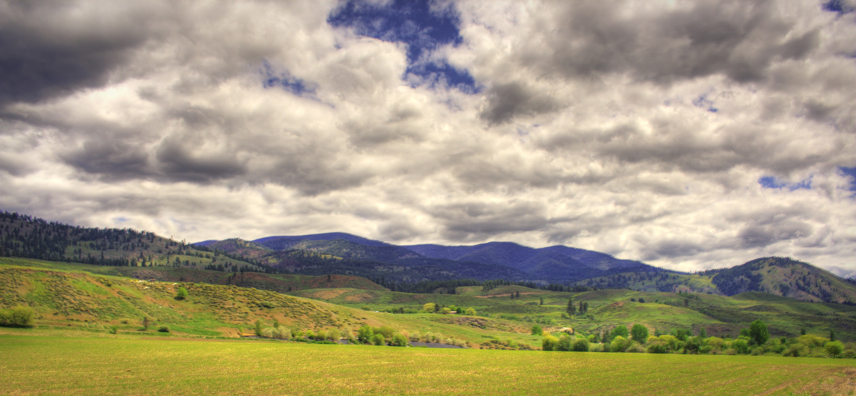 Pearrygin Lake State Park, near Winthrop, WA. **Picture Replaced** -larger version (yes!! pro!!), slightly different crop, removed bad square vignette (wtf was that all about?), added slight oval vignette, removed two pesky houses, and a couple of other things :)